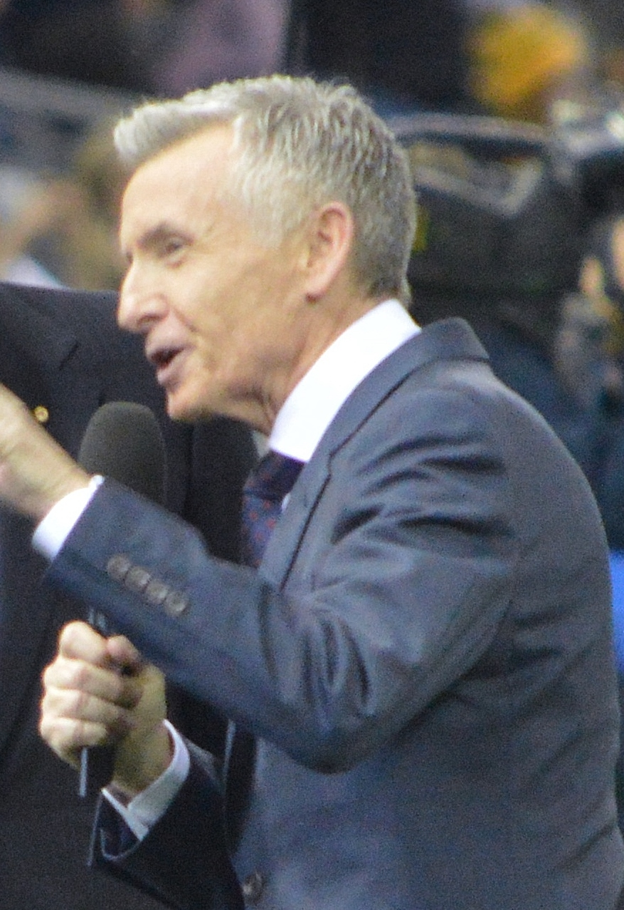 Eddie McGuire and Bruce McAvaney at the AFL State of Origin for Bushfire Relief Match at Marvel Stadium in February 2020.